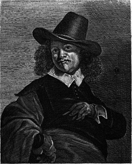 Portrait of Leonaert Bramer. Engraving.